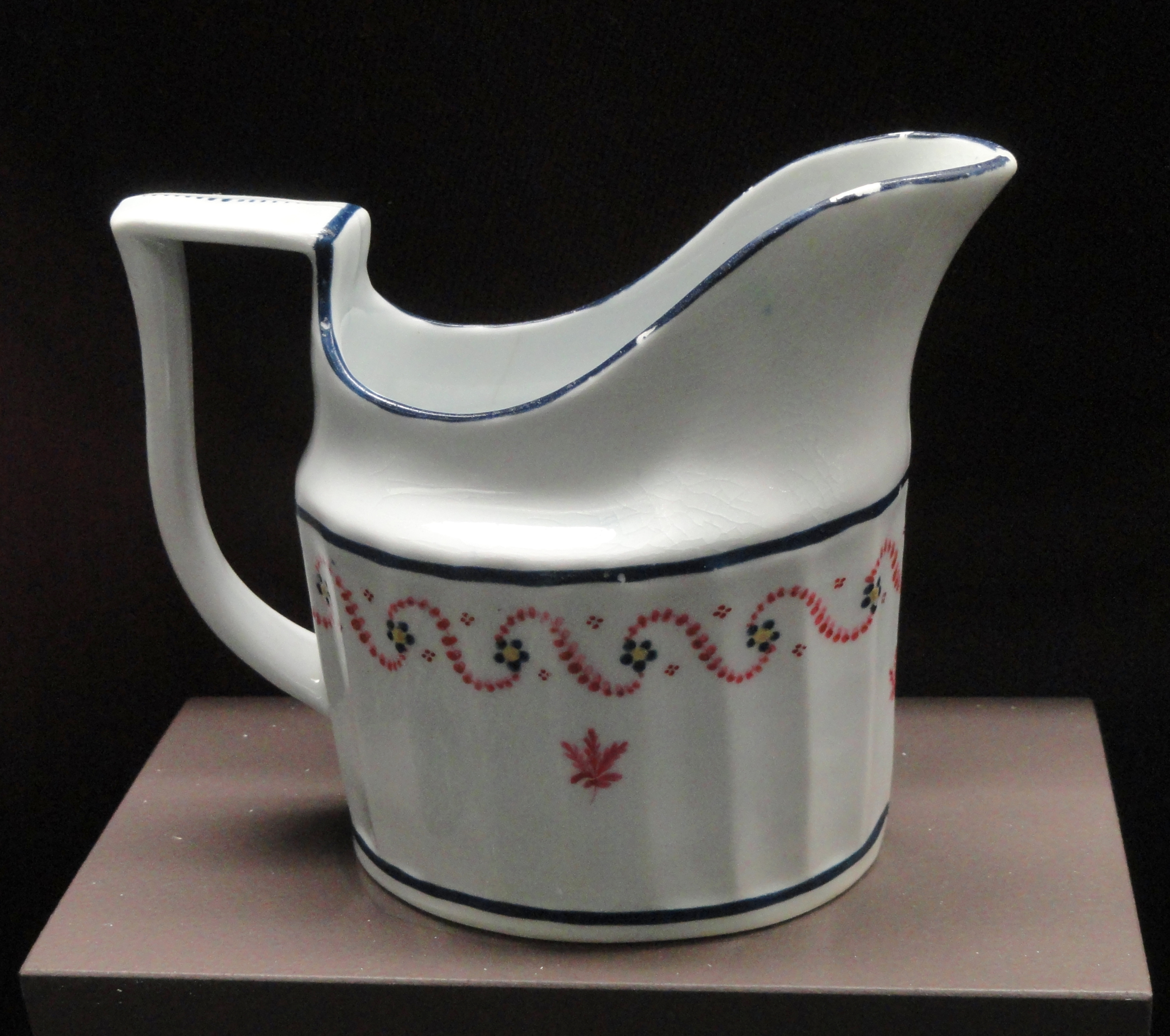 Exhibit in the Gardiner Museum, Toronto, Ontario, Canada. This artwork is in the public domain because the artist died more than 70 years ago.